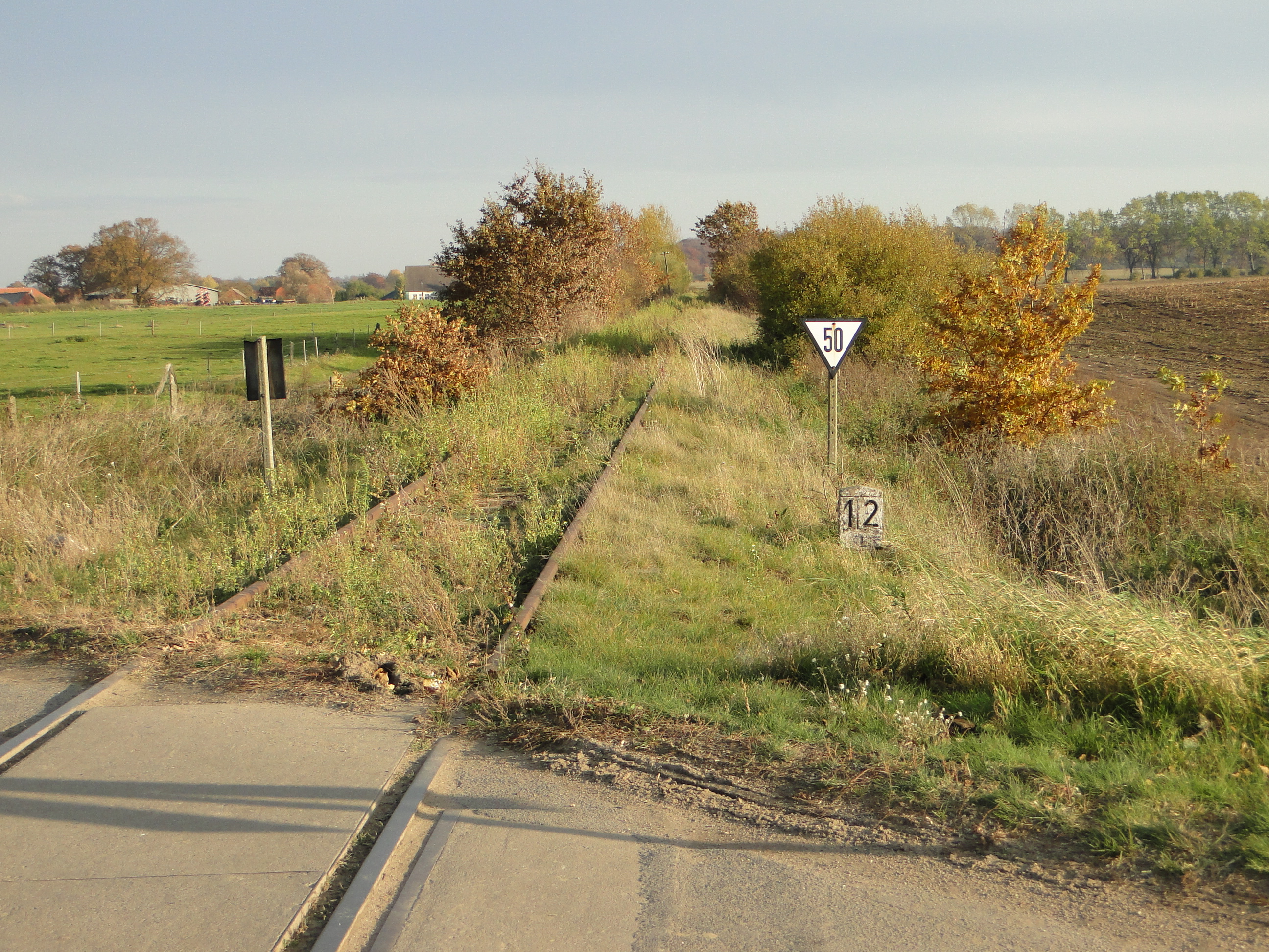 Railway line Thurow-Feldberg in Dolgen, district Mecklenburg-Strelitz, Mecklenburg-Vorpommern, Germany